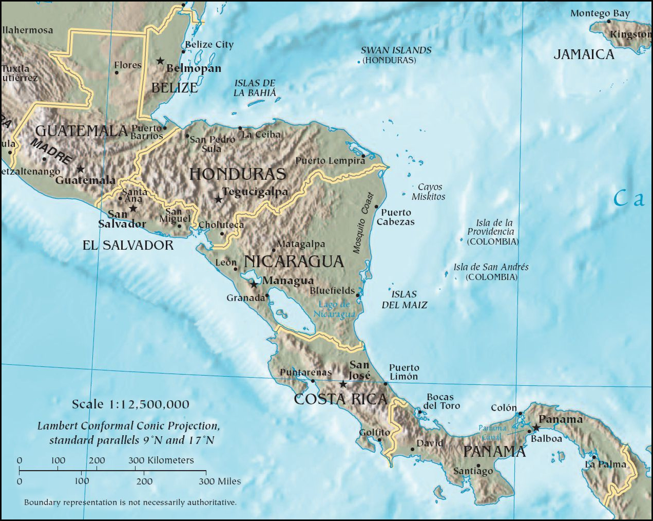 Map of Central America by the CIA World Factbook